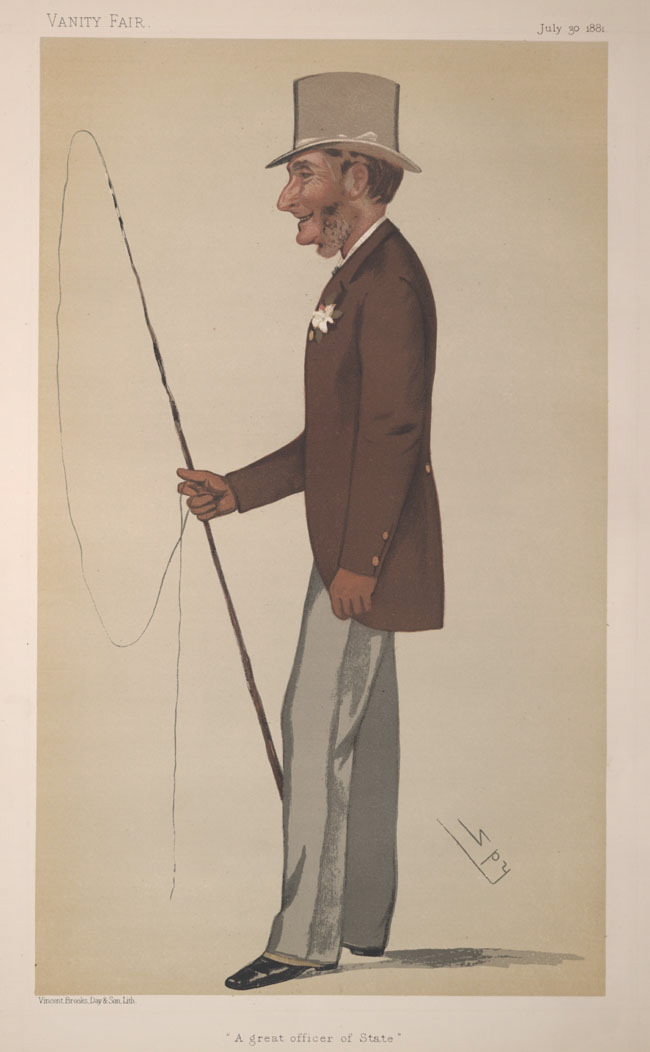 Statesmen No.366: Caricature of Lord Aveland. Caption reads: "A great officer of State"